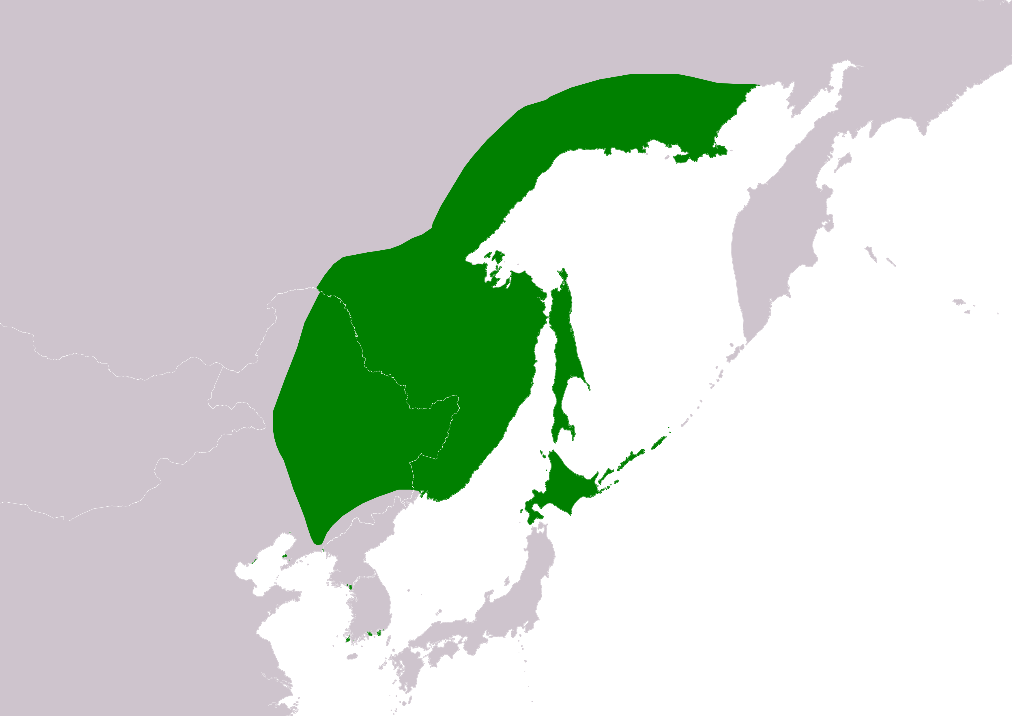 Distribution map of Blakiston's Eagle-owl (Bubo blakistoni) according to IUCN version 2019.2; key: Extant, resident (#008000)